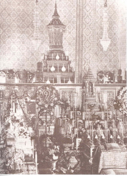 Major Gold Funerary Urn of King Rama V atop Pra Thean Suwan Benjadol in Dusit Maha Prasat Hall